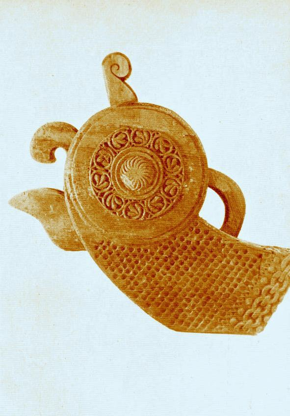 Colorized version of an Old Somali Figurehead from the Somali Museum